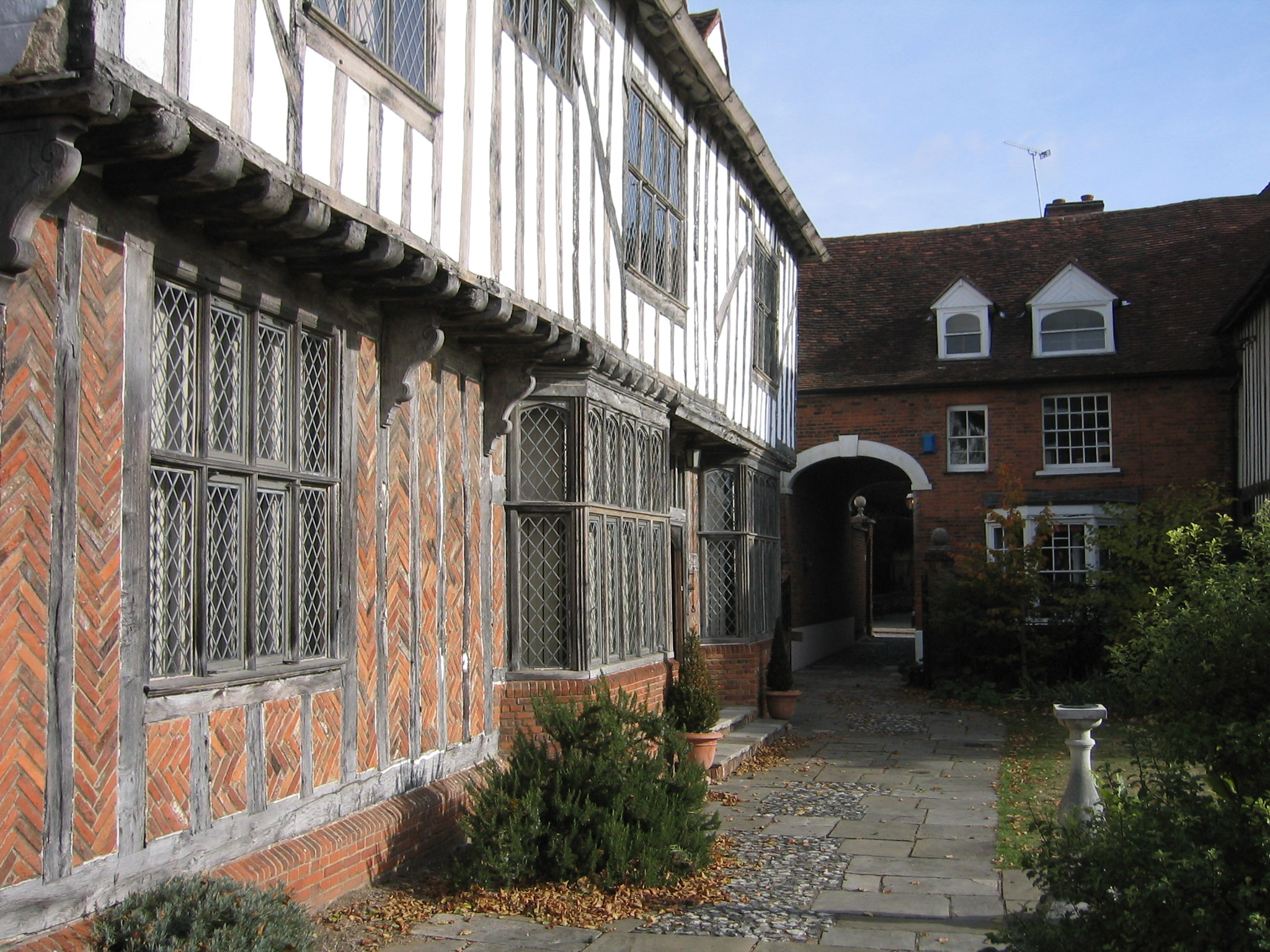 Tymperleys in Colchester, former home of William Gilbert and Bernard Mason.